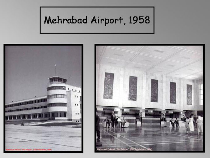 Mehrabad Airport 1958